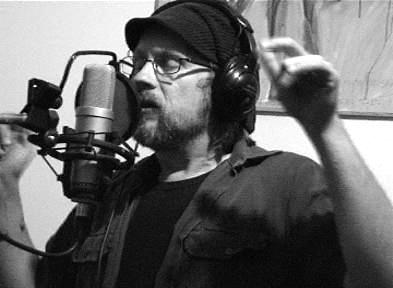 Photograph of Andrew Garton during a recording session in Melbourne, August 2007.